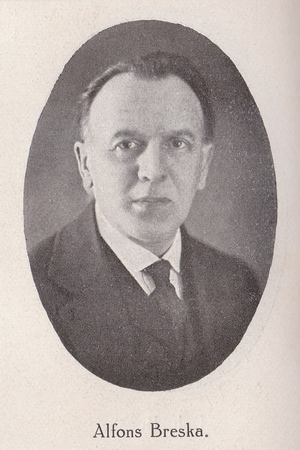 Alfons Breska (1873-1946), czech poet and translator